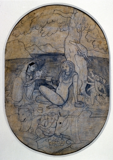 Shiva, Parvati and their children on Mount Kailash, drawing Kangra style, Pahari, c1800. From the Panjab Hills, India Kangra style, Pahari, around AD 1800 At home in the Himalayas.